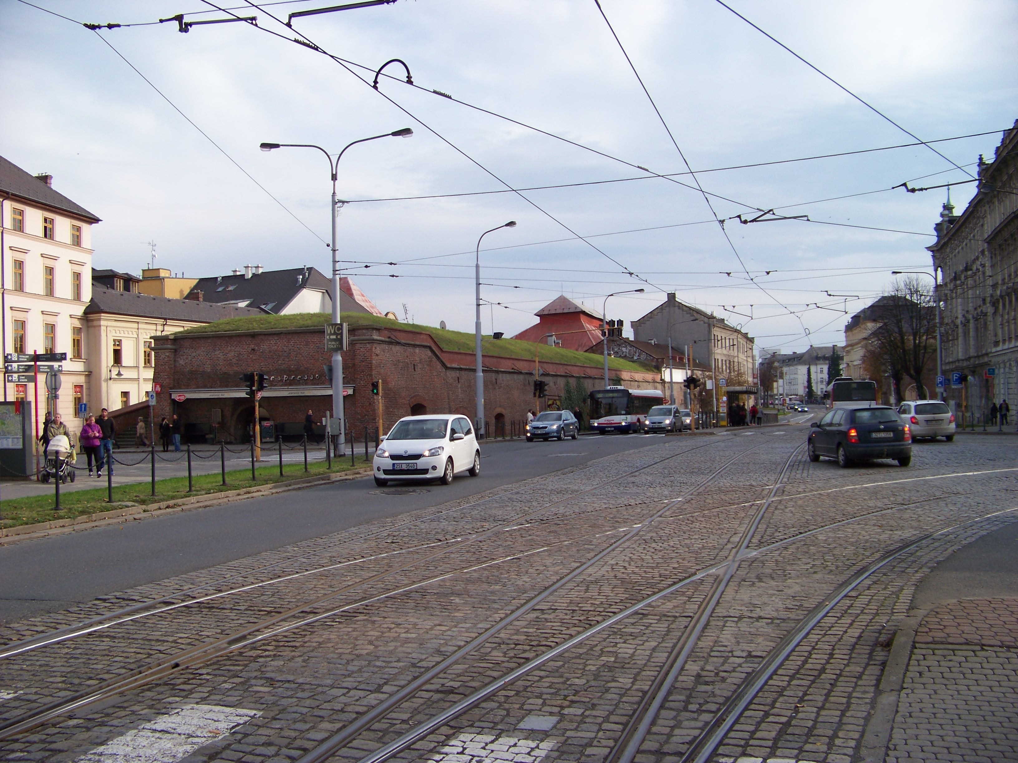 Olomouc, Olomouc District, Olomouc Region, Czech Republic. Tř. Svobody, city walls, Mlýnská 952/2.